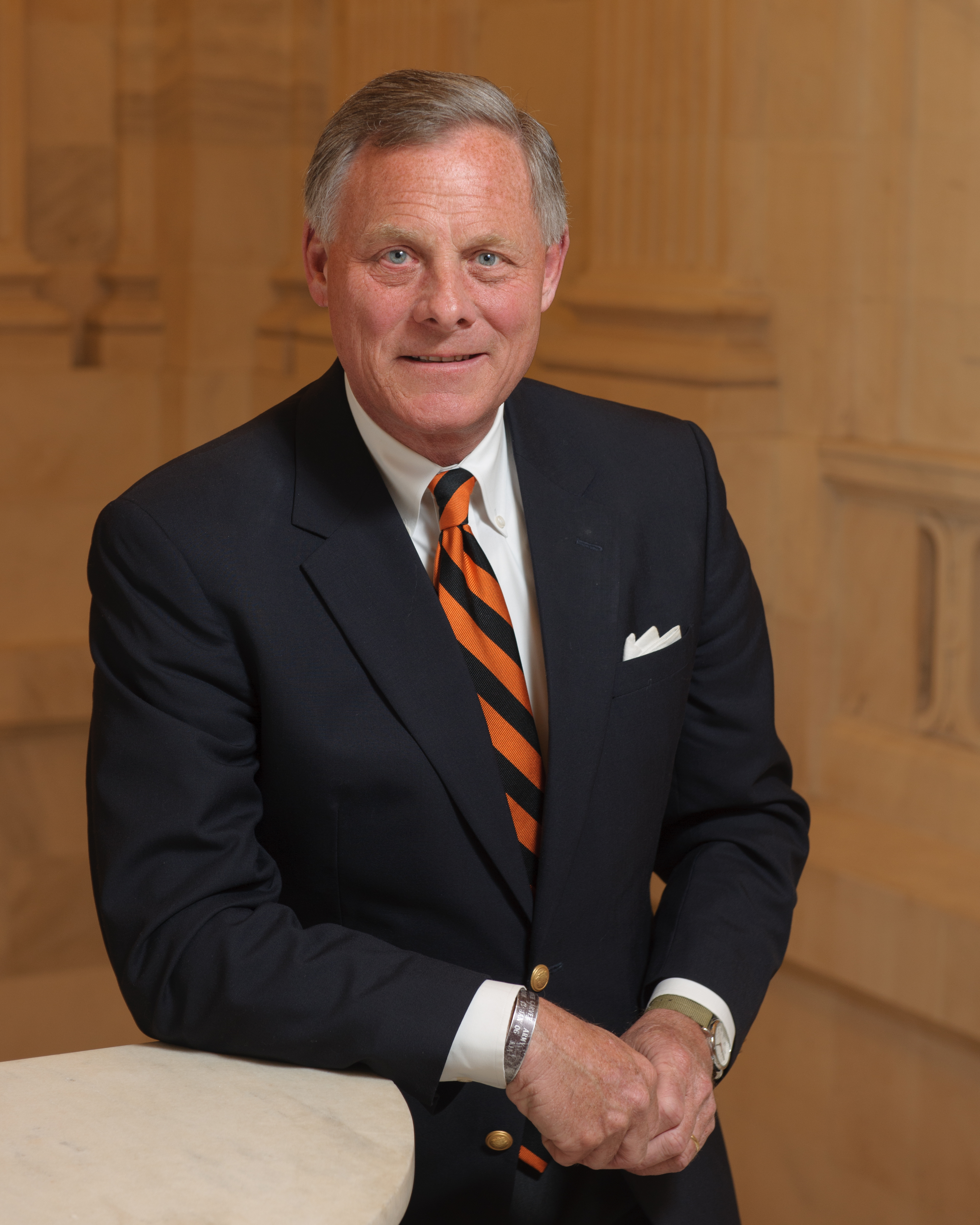 Richard Burr official photo, 114th Congress